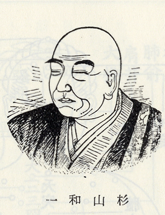 Portrait of Sugiyama Waichi after a scroll from the Edo period. From: Fujikawa Yu, Nihon no igakushi [History of Japanese Medicine] (冨士川游『日本の医学史』). 1904